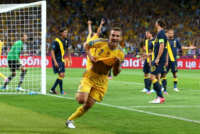 Andriy Shevchenko celebrates goal at the Euro 2012 match against Sweden